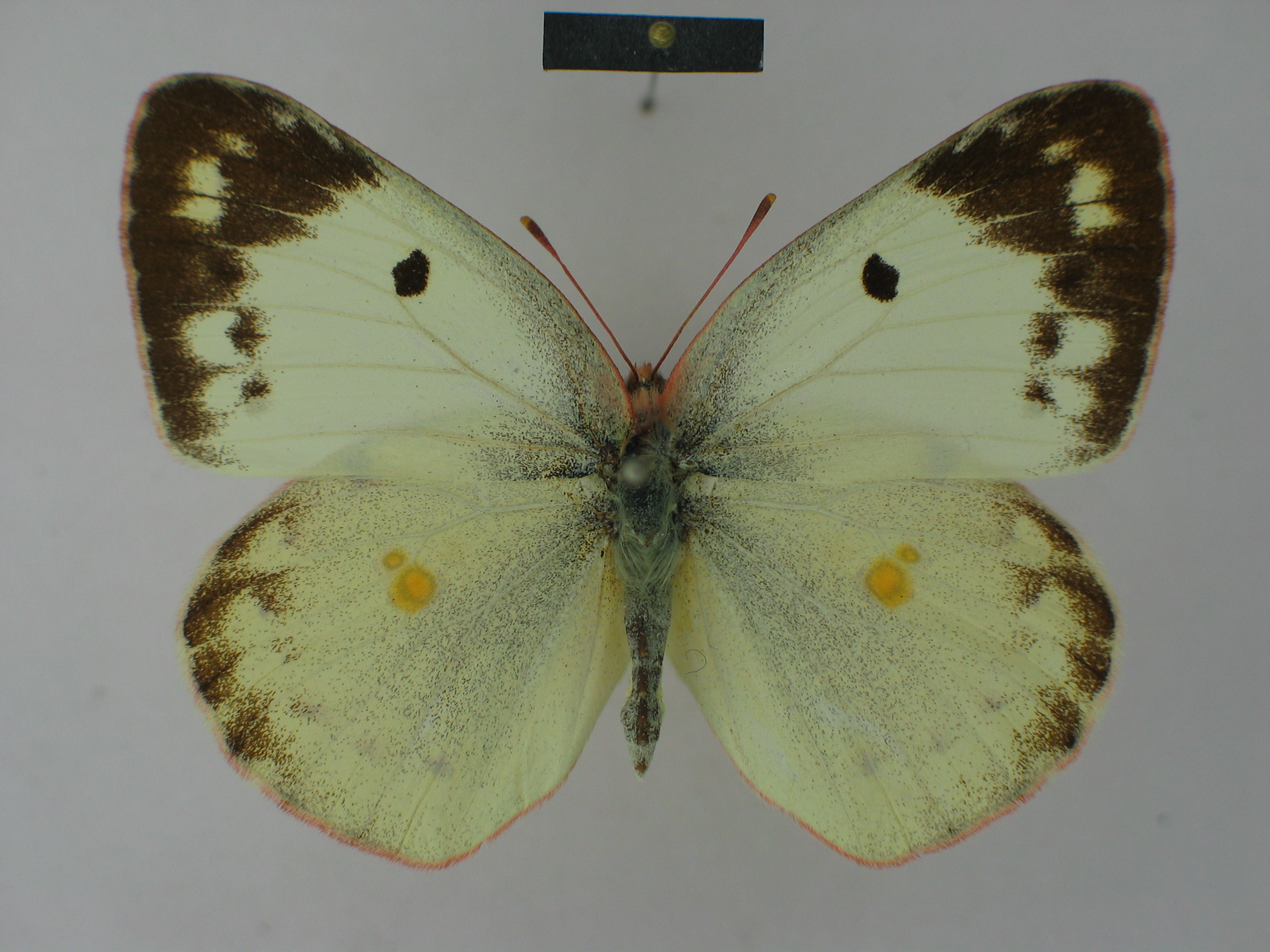 Specimen of the species Colias alfacariensis bergeri from the collection of the Museum für Naturkunde; ♀ dorsal side; scalebar=1 cm